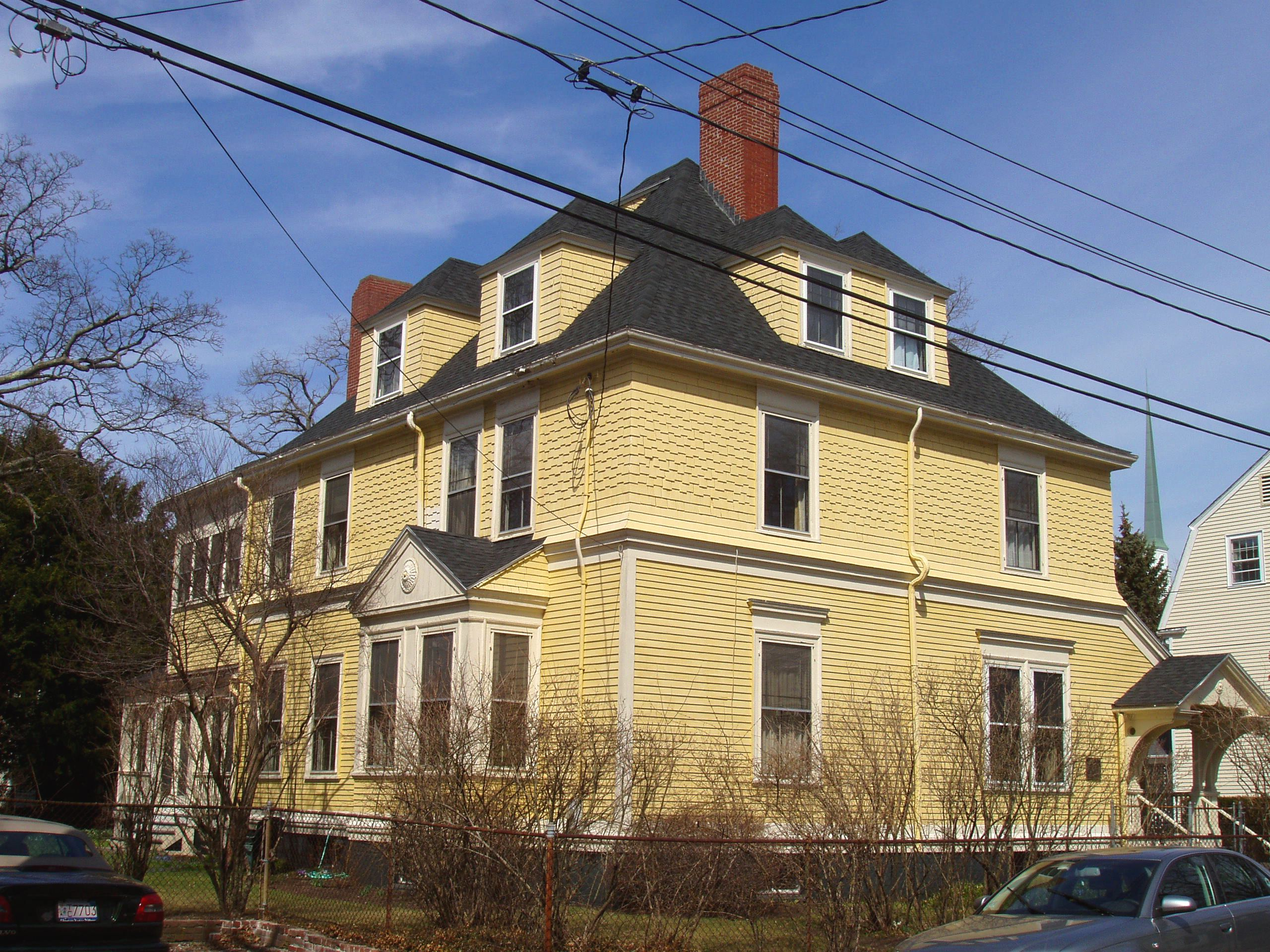 Photograph of the Reginald A. Daly House, 23 Hawthorn Street, Cambridge, Massachusetts, USA. This house is a National Historic Landmark.